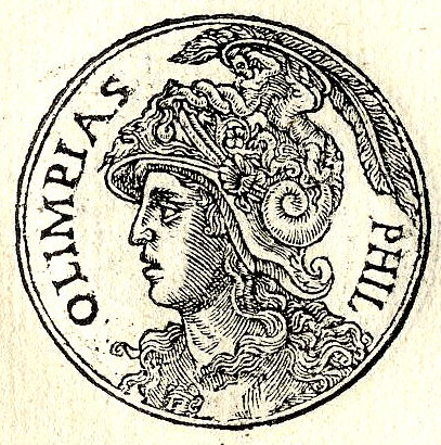 Olympias was a Greek princess of Epirus, daughter of king Neoptolemus I of Epirus, the fourth wife of the king of Macedonia, Philip II, and mother of Alexander the Great.